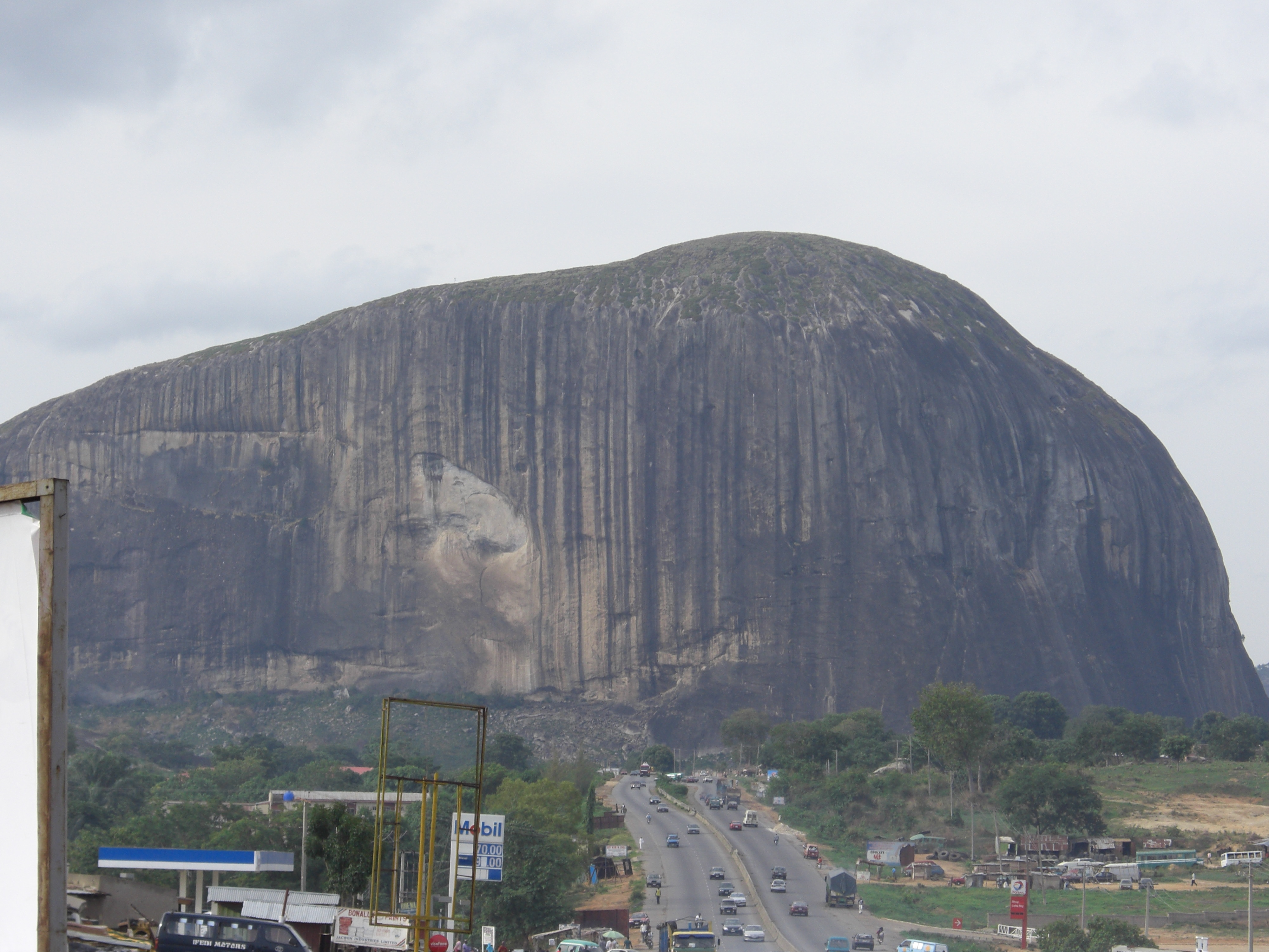 Zuma rock niger state nigeria.Snapped while driving along Abuja kaduna road.